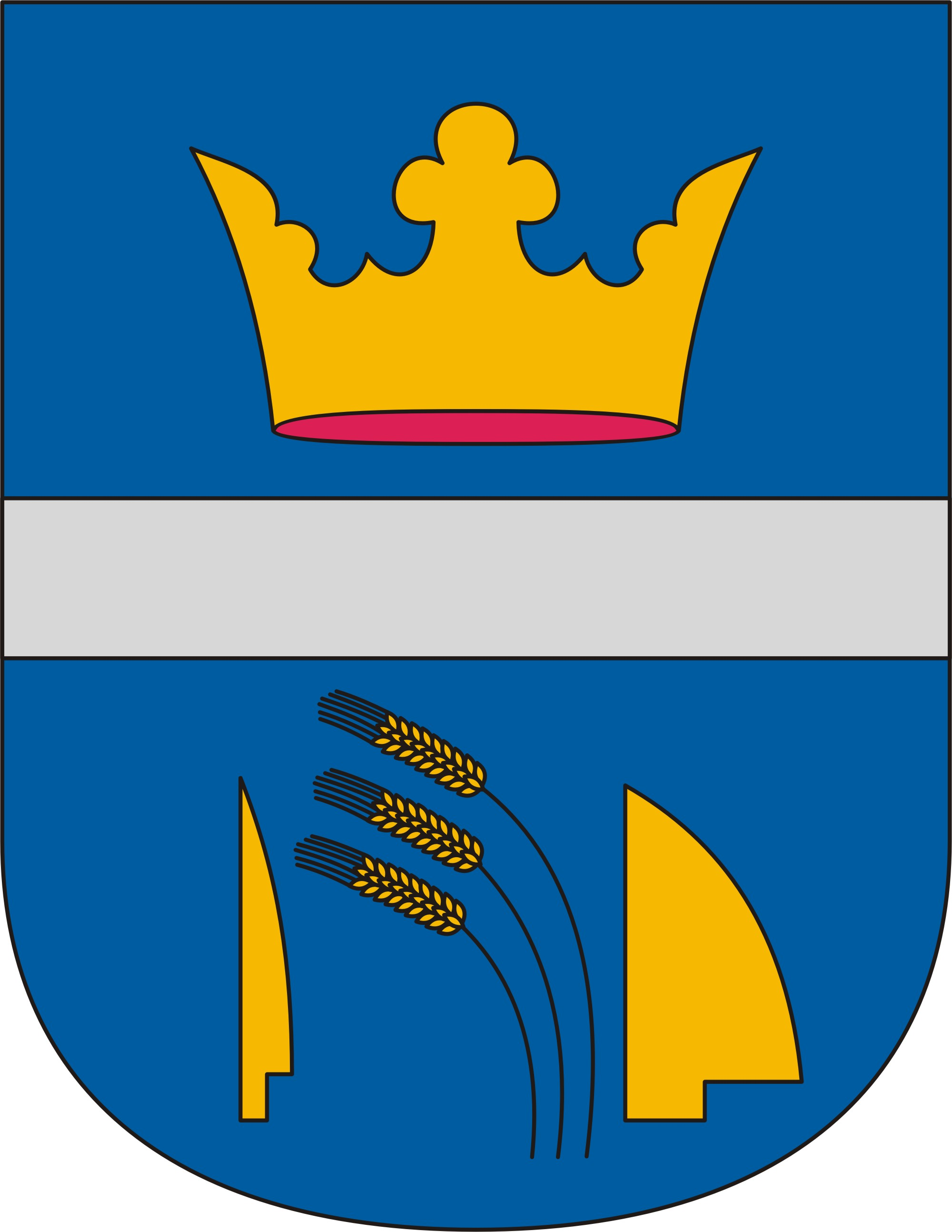 Coat of arms of Bakonyszentiván, Hungary